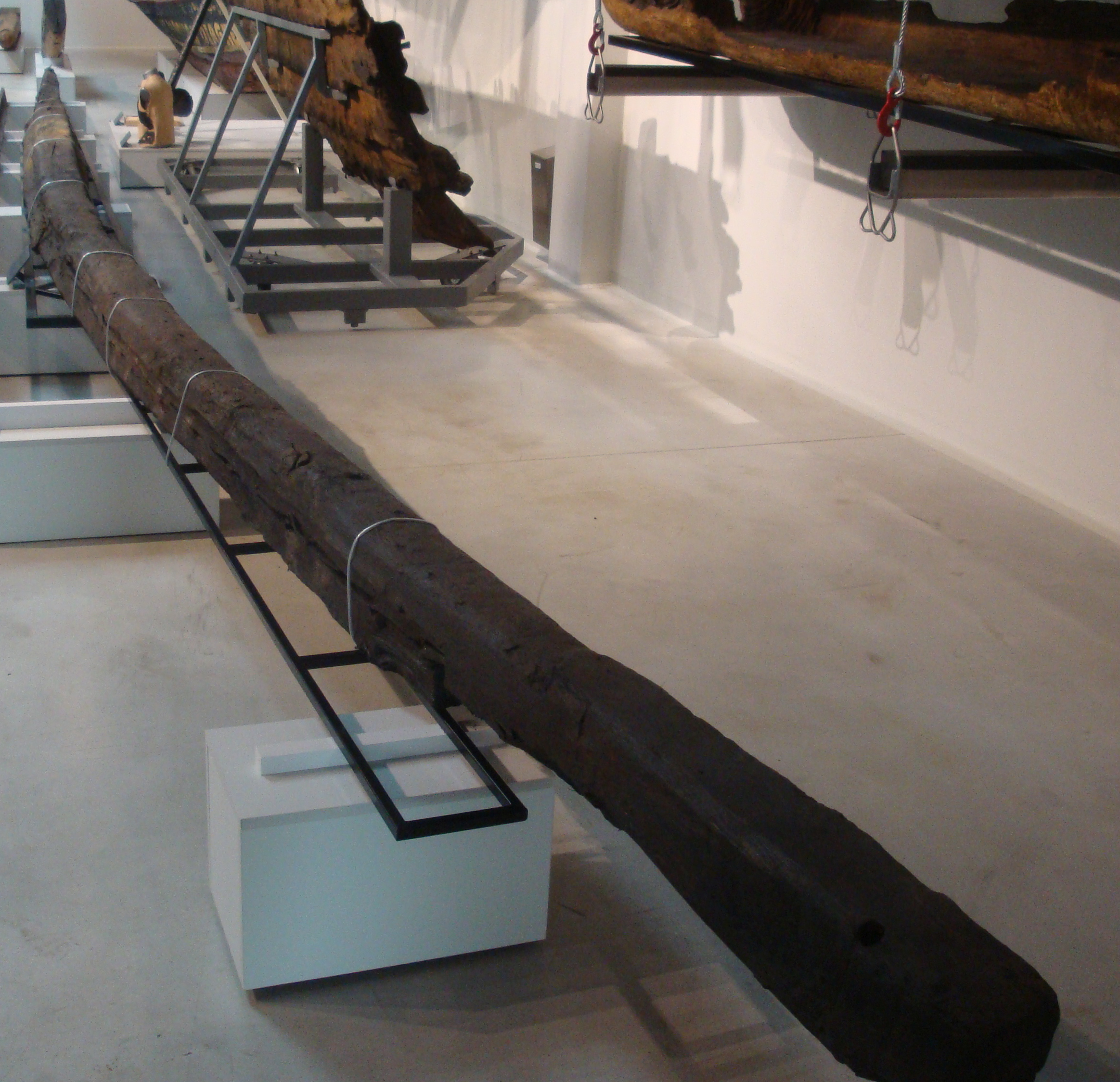 Keel from Miedziowiec on exhibition in Centrum Konserwacji Wraków Staków (Shipwreck Conservation Centre) in Tczew, Poland. Remain 11.6 meters long fragment. "Miedziowiec" (The Copper Ship) - wreck of medieval ship, which sunk in 1408. Discovered in 1969, delivered many valuable artefacts.